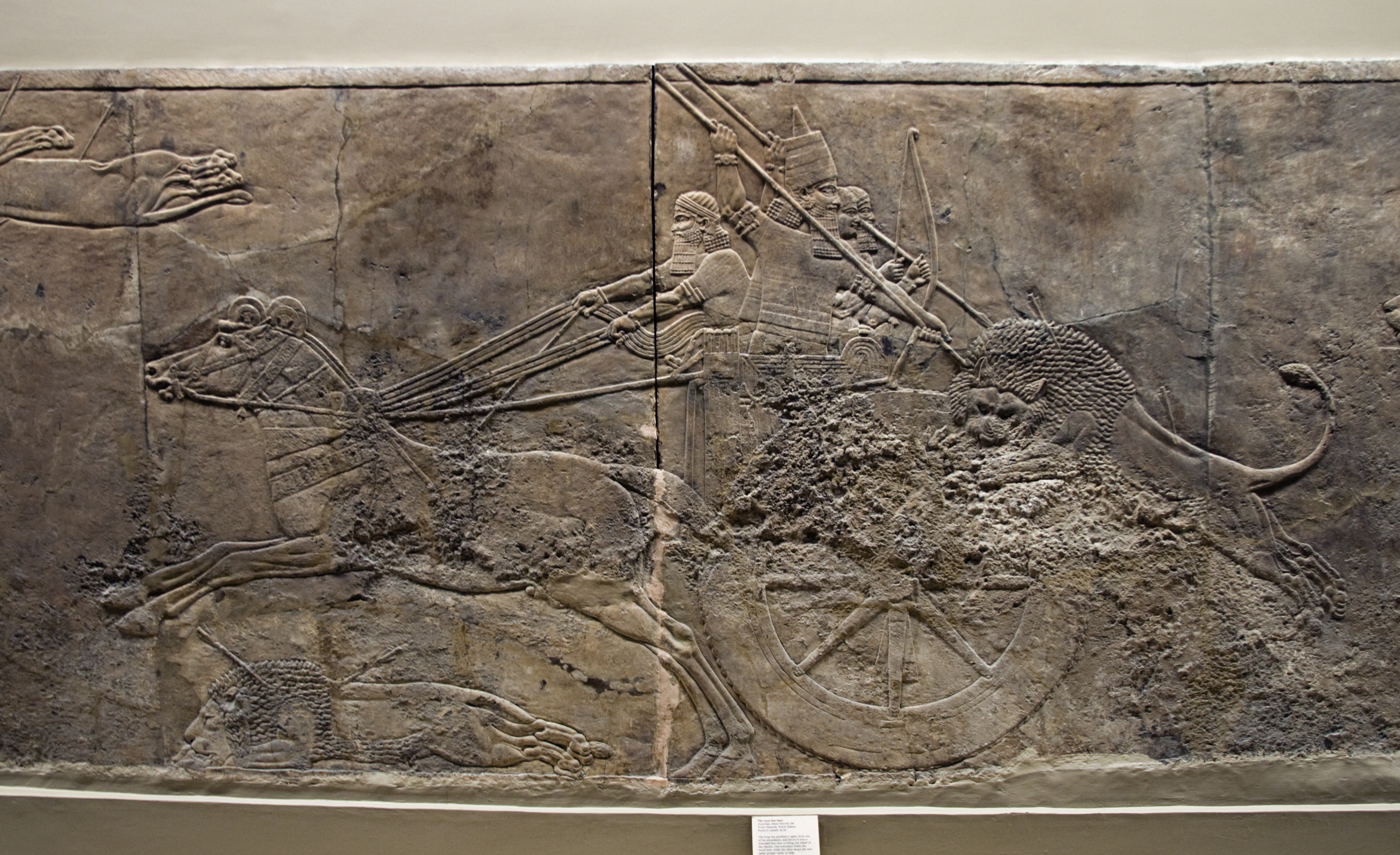 Assyrian relief from Nineveh. The tag on the exhibit states: "The royal lion hunt. Assyrian, about 645-635 BC. From Nineveh, North Palace, Room C, panels 22-25. WA 124852-5". See British Museum database entry for more details.